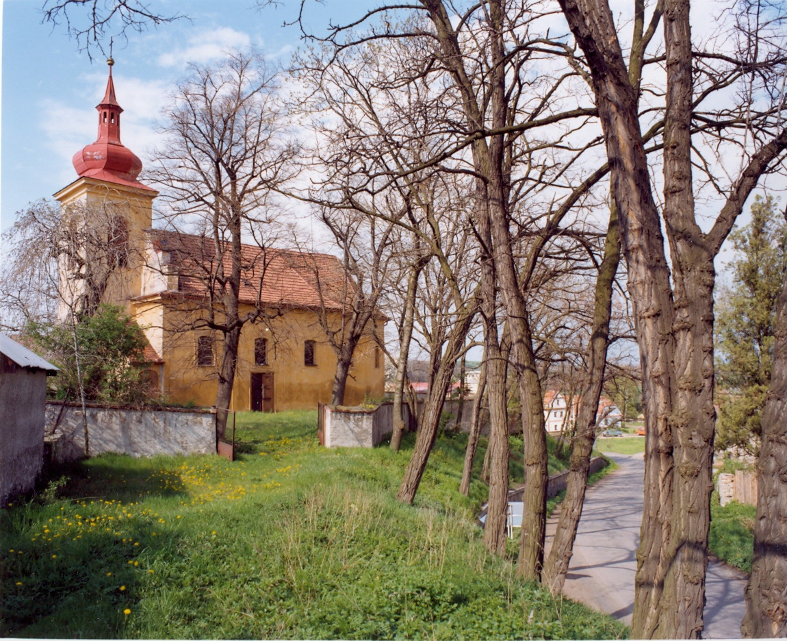 Church of St. Bartholomew the Apostle in Holedeč